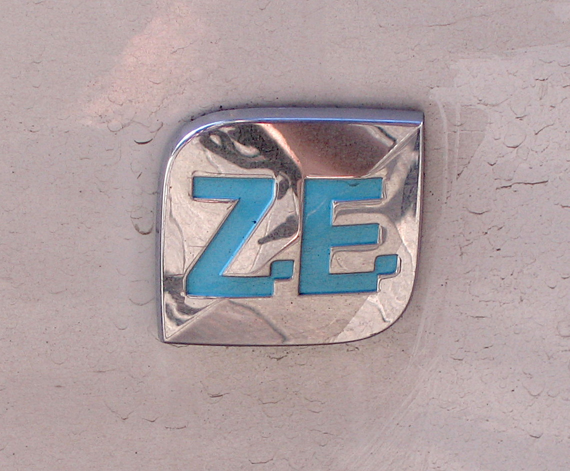 Renault ZE logo.